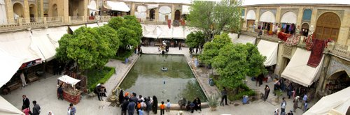 The Main Entrance of Saraye Moshir Bazaar located in Sothern of Vakil Bazaar in Shiraz,Iran. َ إA big Yard with Traditional architecture and old trees.